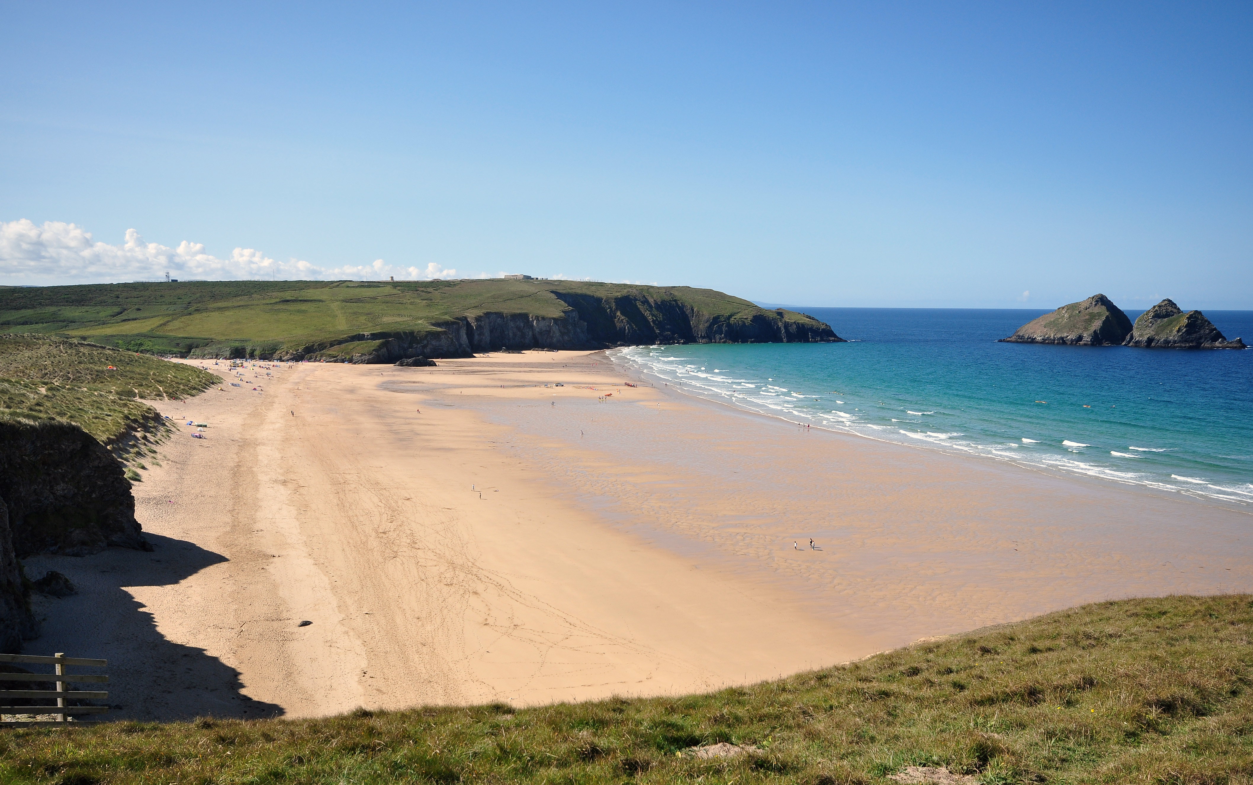 The beach at Holywell Bay, between Perranporth and Newquay, Cornwall.